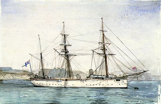 Watercolour of HMS Mariner by an unknown artist